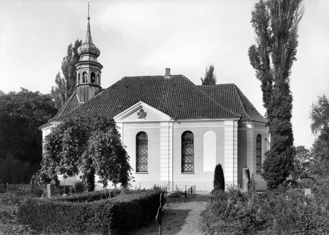 Damsholte Kirke on Møn, Denmark